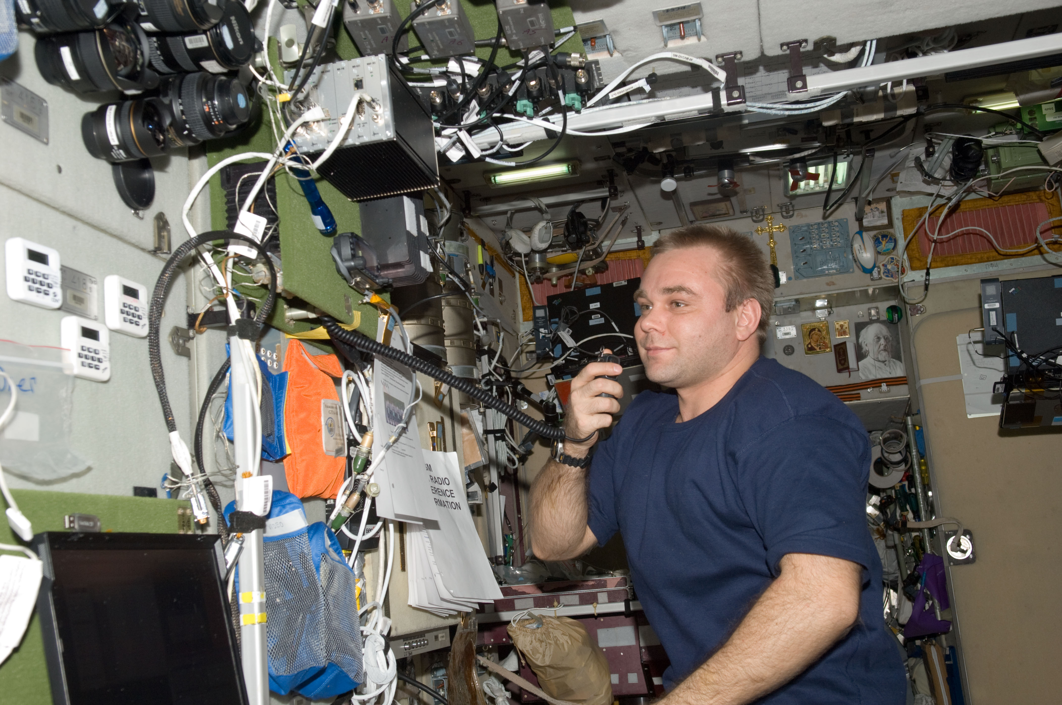 Russian cosmonaut Maxim Suraev, Expedition 22 flight engineer, conducts a ham radio session in the Zvezda Service Module of the International Space Station with students, alumni and faculty of Kursk State Technical University.